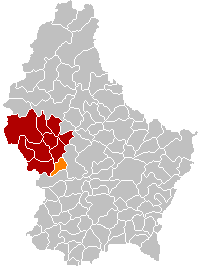 Own edit of Kanton RedangeLocatie.png